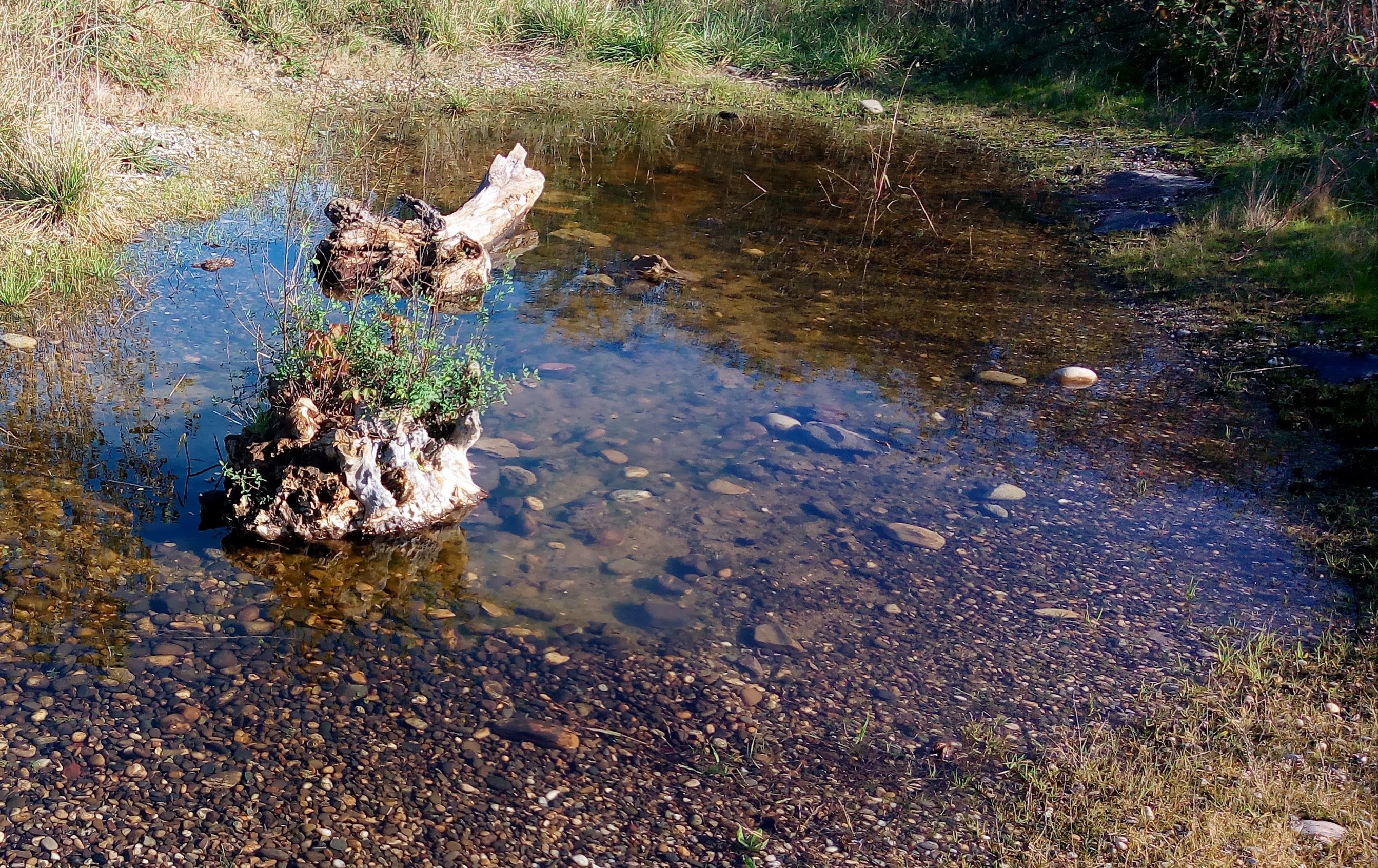 Pond for Bufo Viridis in Haut-Rhin